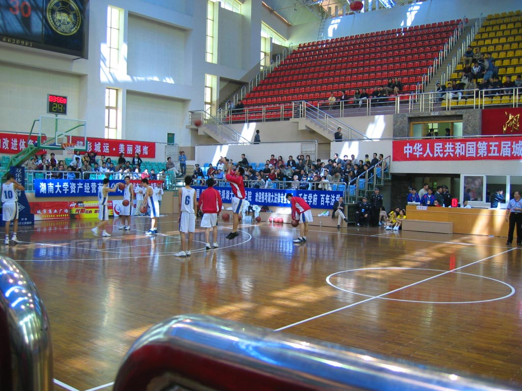 stadium of hunan university